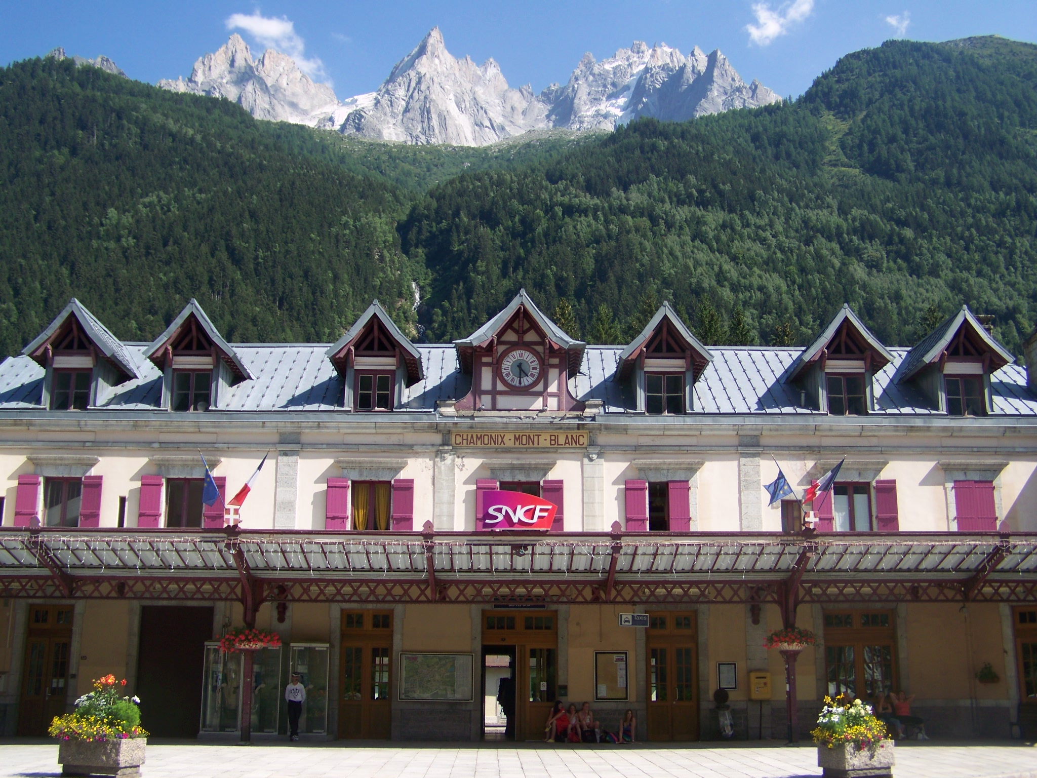 Front and facade of the Chamonix - Mont-Blanc railway station in Chamonix, Haute-Savoie, France.